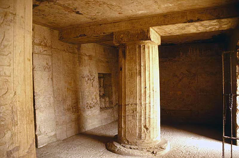 Pillared Hall at the Temple of Beit el-Wali, now at New Kalabsha, Lake Nasser, Egypt